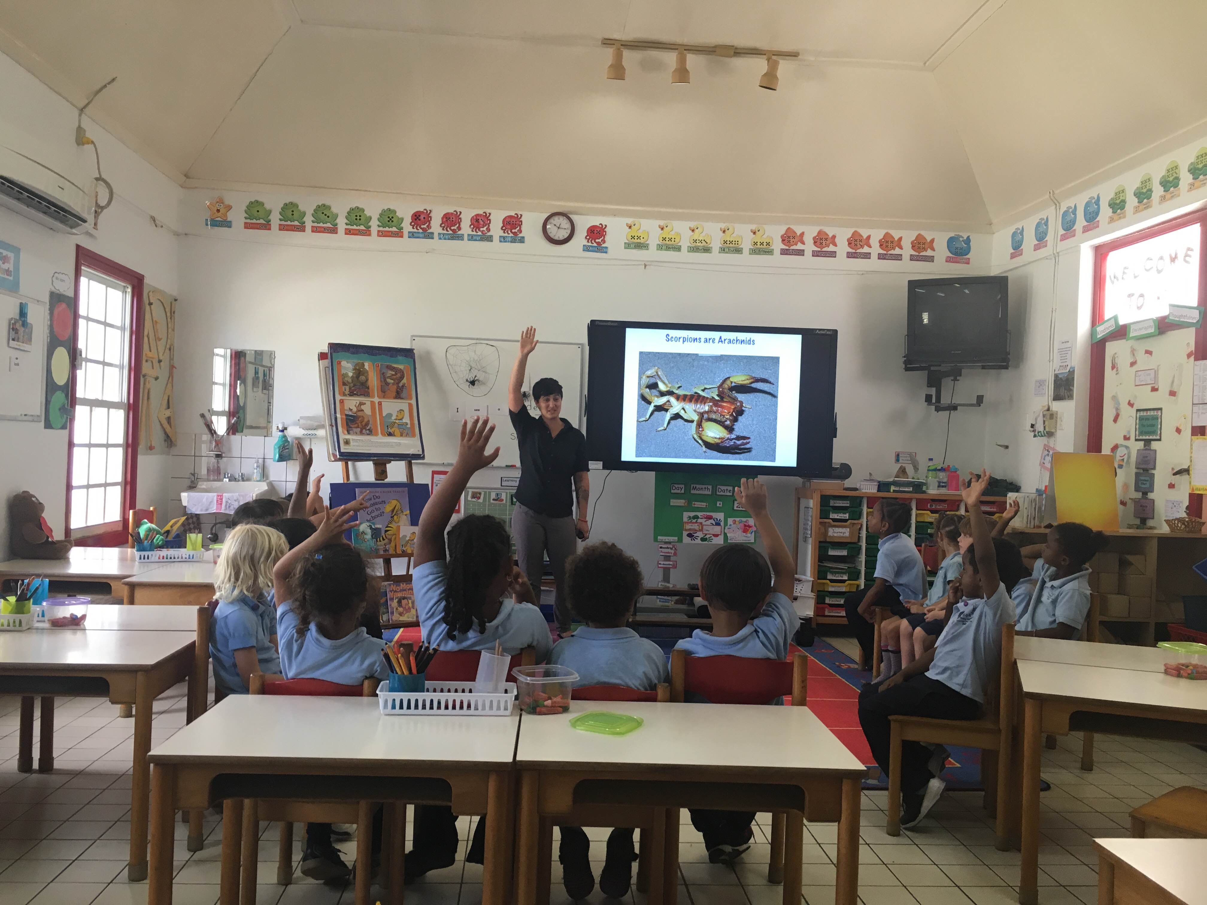 Lauren Esposito in a classroom with students on the island of Saba in the Caribbean.